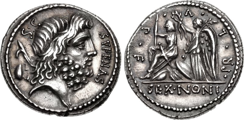 M. Nonius Sufenas 57 BC. AR Denarius (18mm, 3.78 g, 12h). Rome mint. Head of Saturn right; to left, harpa above baetylus (conical stone); S • C upwards to left, SVFENAS downwards to right / Roma seated left on pile of arms, holding vertical spear in right hand, and sword in left, being crowned by Victory standing left behind, holding wreath in right hand and palm frond over left shoulder in left hand; SEX • NONI in exergue; • PR • L • V • P • F around. Crawford 421/1; Sydenham 885; Kestner 3436-7; BMCRR Rome 3820-4; Nonia 1. Good VF, handsome toning, a few shallow scratches on obverse under tone. Well centered on a round flan.